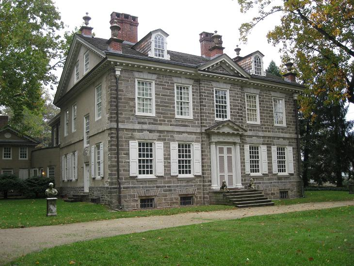 Left front of Cliveden (Benjamin Chew House) in Germantown, Philadelphia.